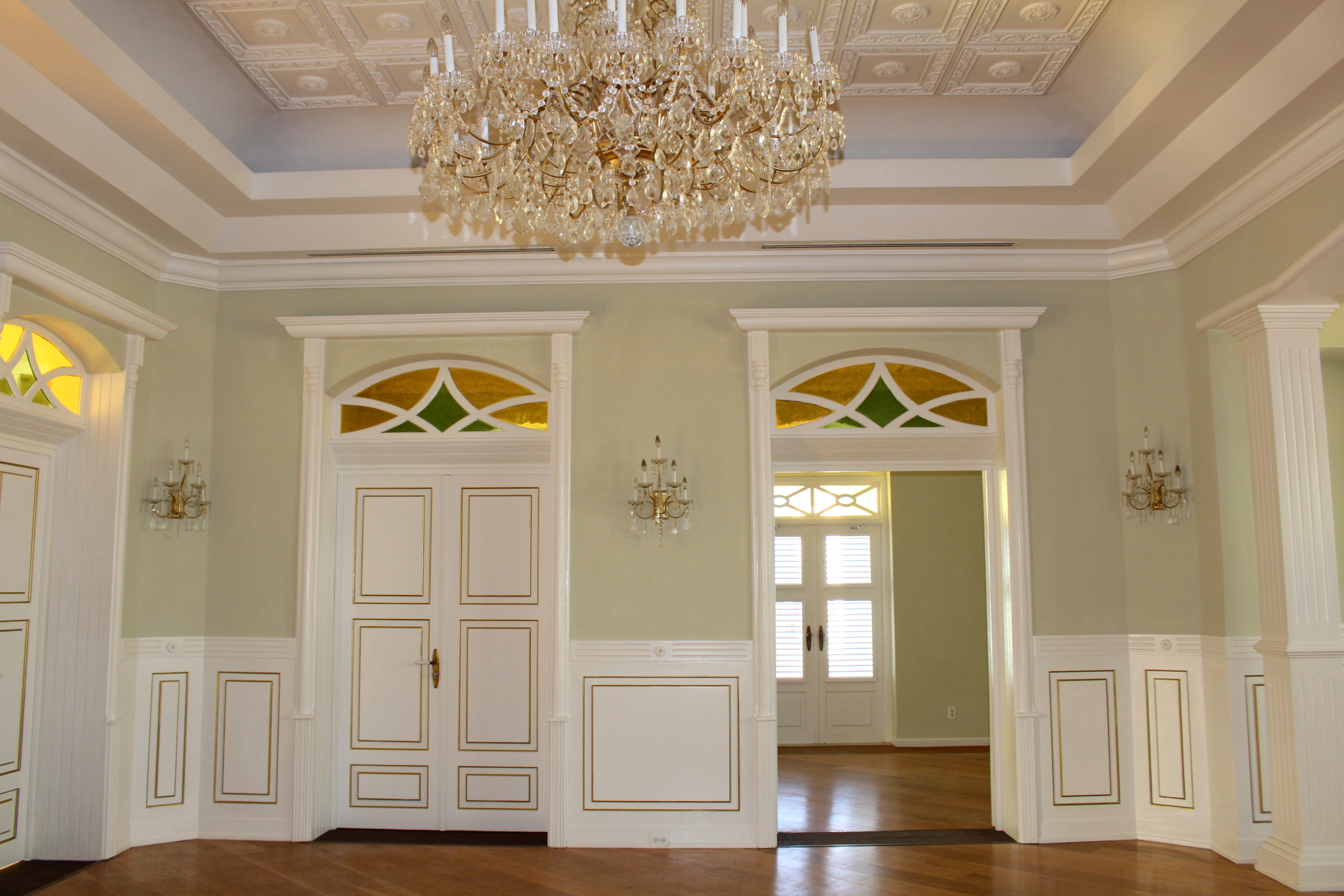 Stadhuis ( City Hall ) Inside (2), Oranjestad, ARUBA